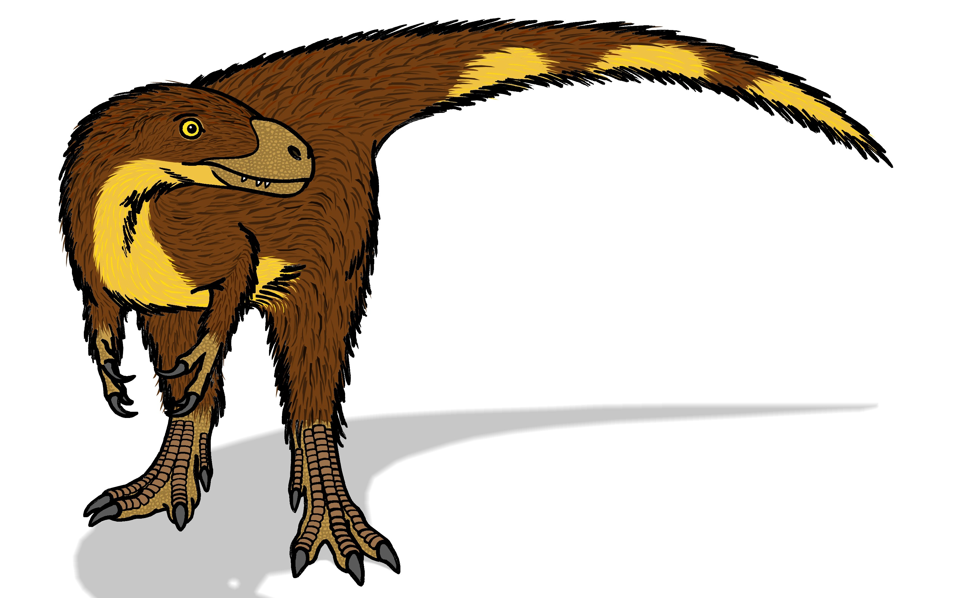 Reconstruction of the small theropod dinosaur Dilong, with a suit of hair-like feathers. Dilong was a close relative to Tyrannosaurus rex, but was merely about 5.5 - 6 feet long, and had longer forelimbs with 3 digits. So far, Dilong is the only tyrannosauroid with evidence for feathers. Those feathers were not the type which most birds have, but they was like a kiwibirds: Simple, hollow filaments, more like the fur in mammals. See skeleton of Dilong at [1], [2] and [3]